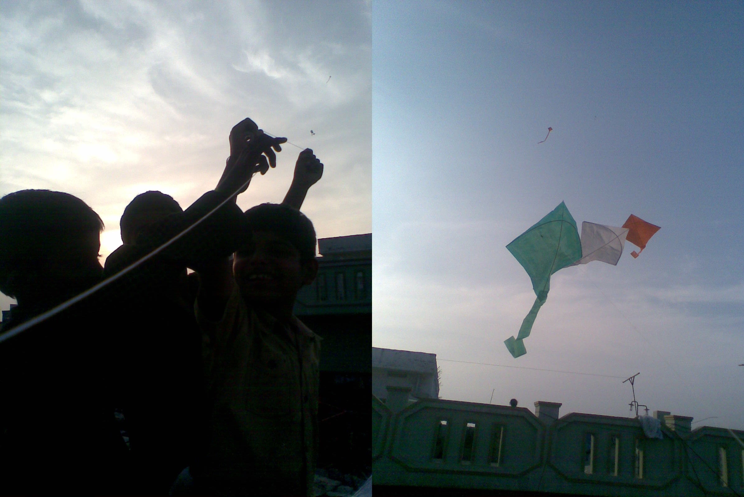 Kite Festival in India